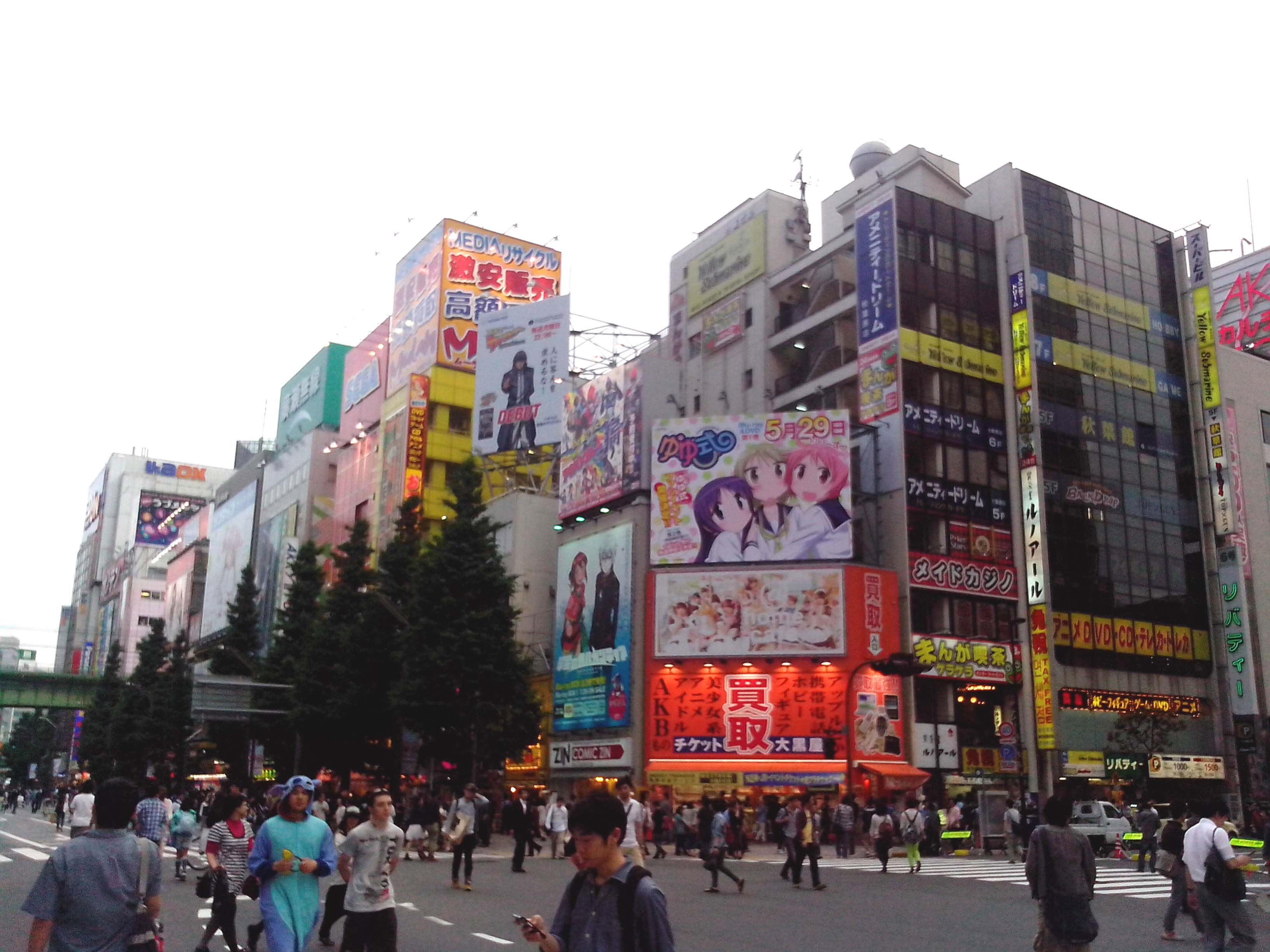 Akihabara, Tokyo, JP